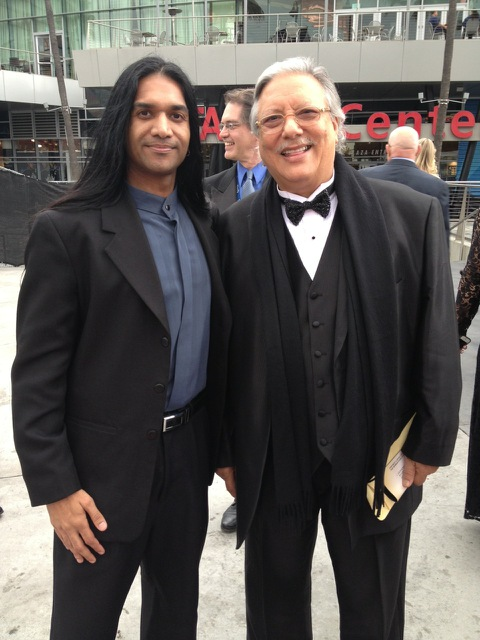 Grammy Winner Arturo Sandoval with Anand Bhatt at the 55th Annual Grammy Awards